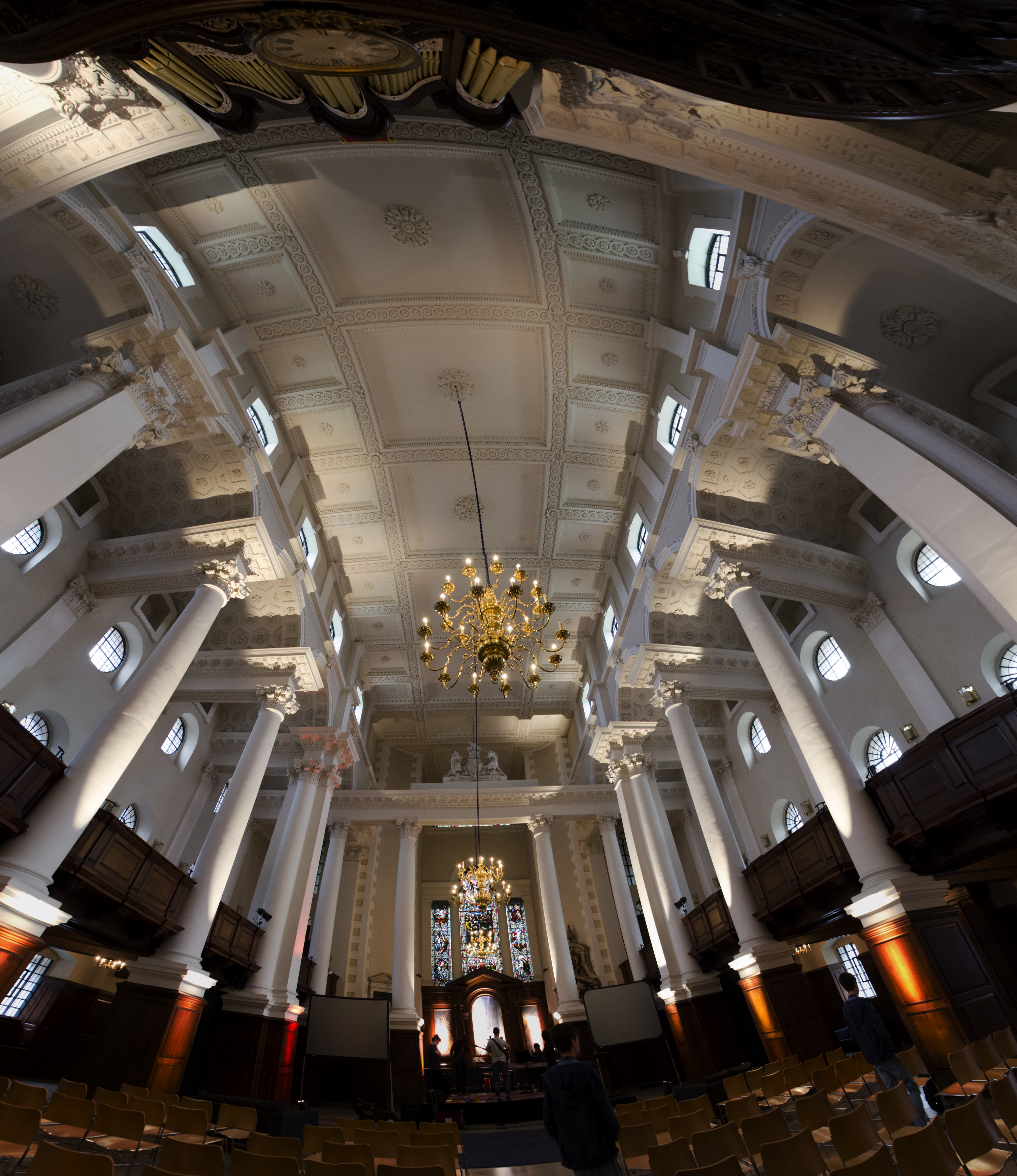 Christ Church Spitalfields Panorama